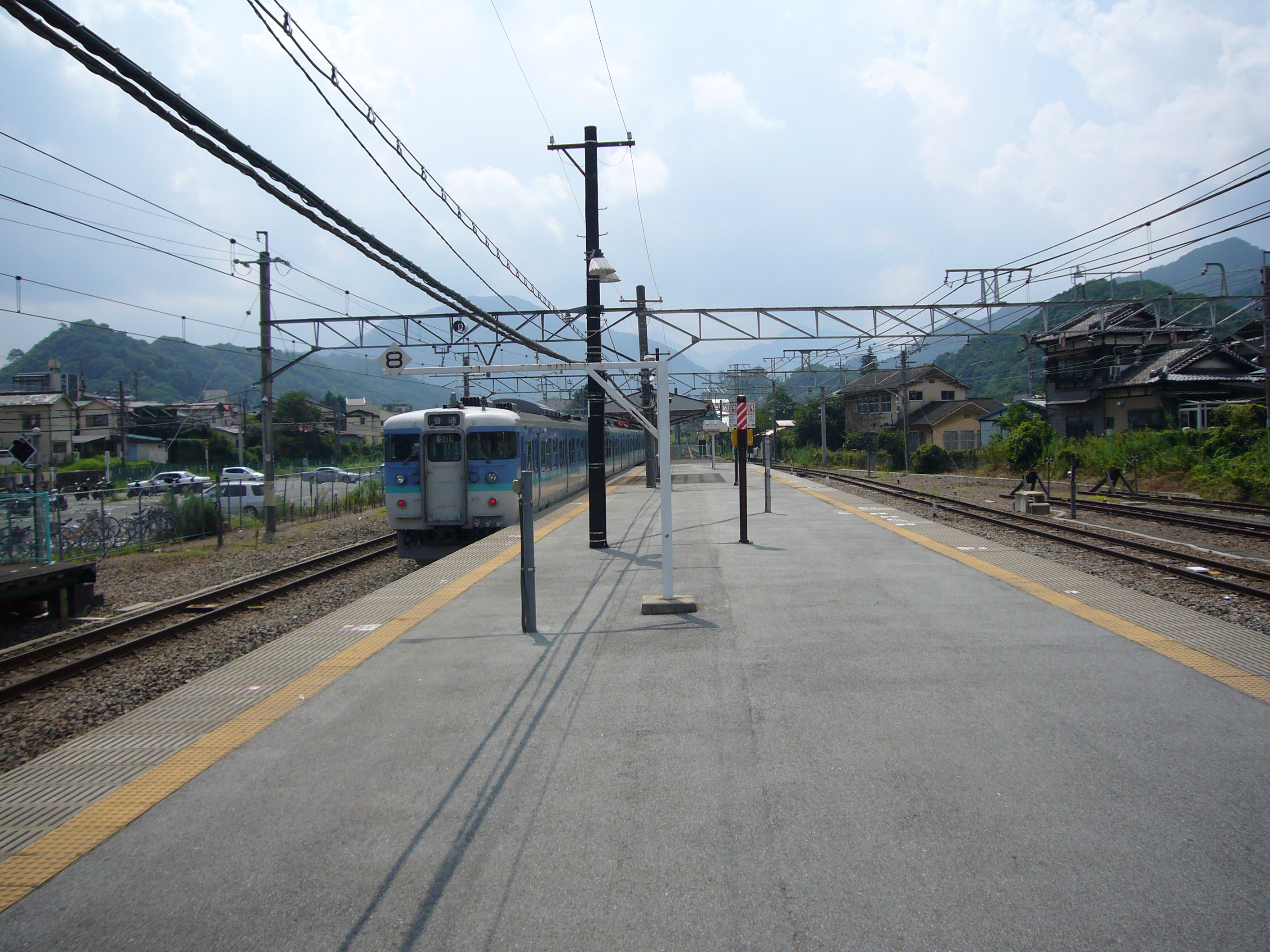 View of platforms 4 & 5 of Otsuki Station on the Chuo Main Line